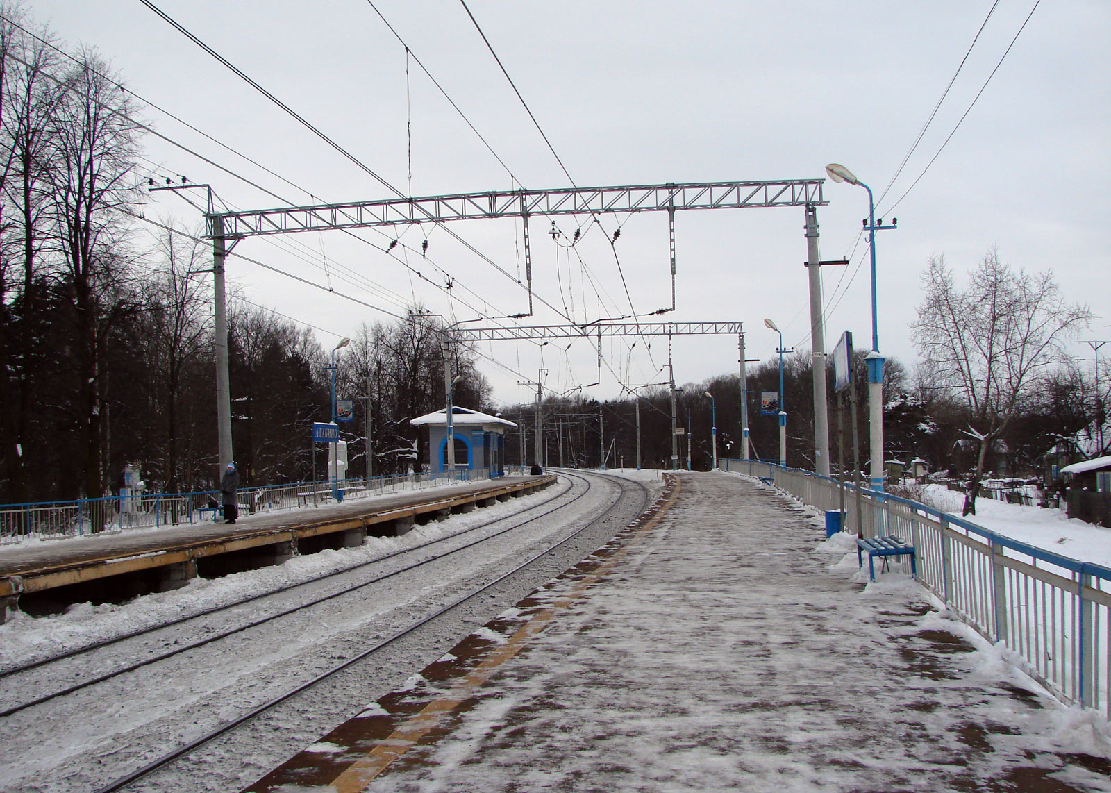 Alabino platform, Moscow oblast.